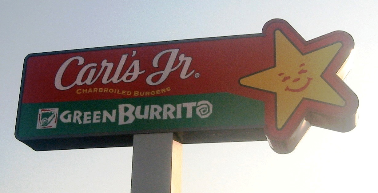 Carls Jr and Green Burrito restaurant sign in Glendale, California